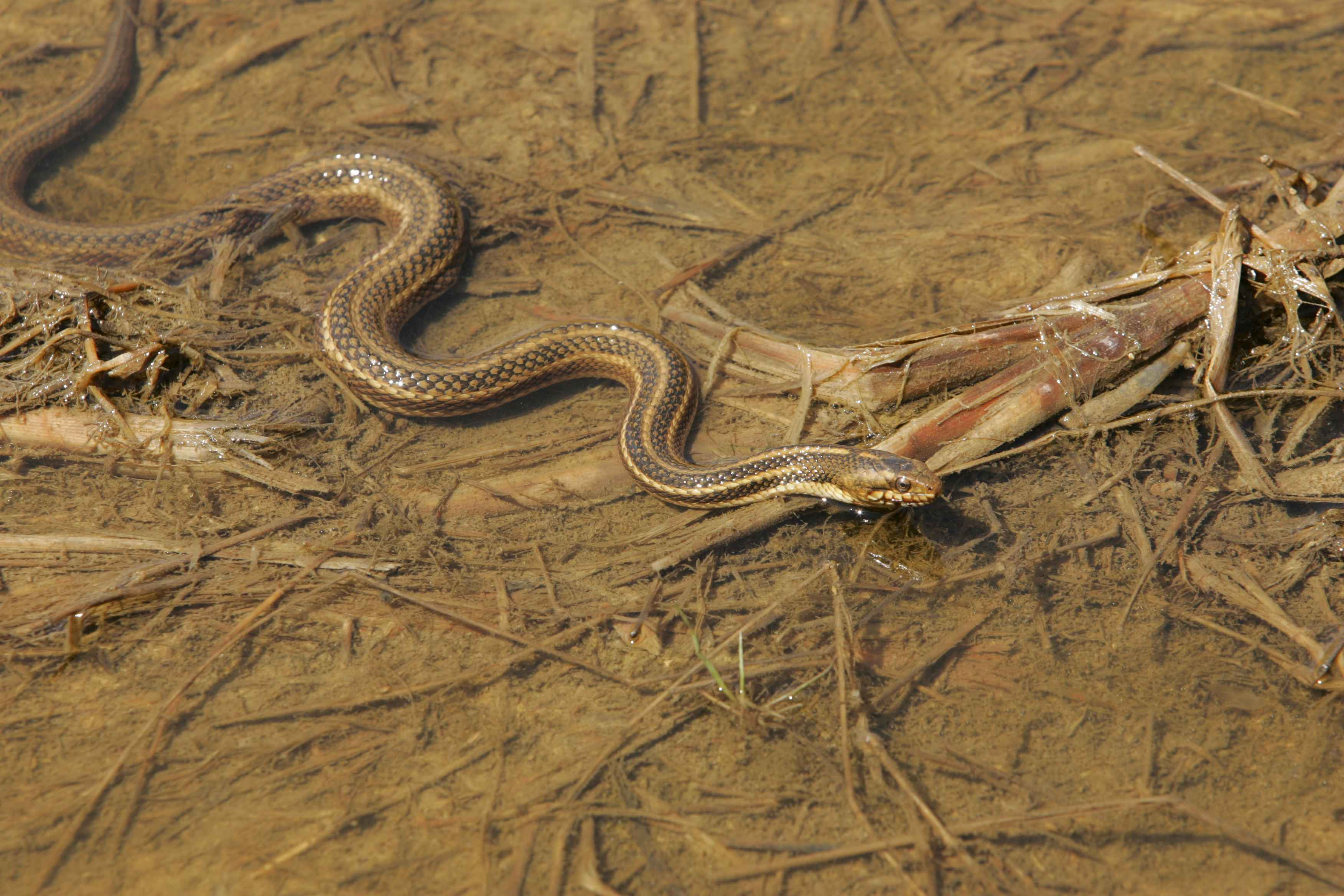 Image title: Eastern garter snake slithers through a muddy area Image from Public domain images website